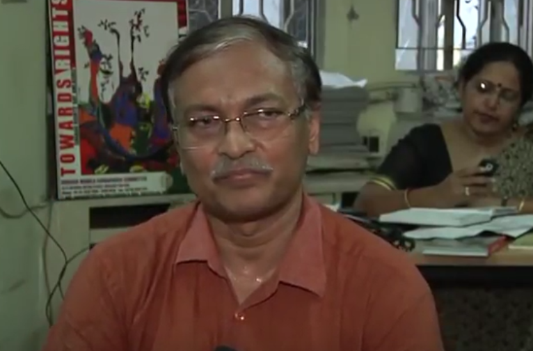 Dr Smarajit Jana, founder of the Durbar Mahila Samanwaya Committee, during an interview